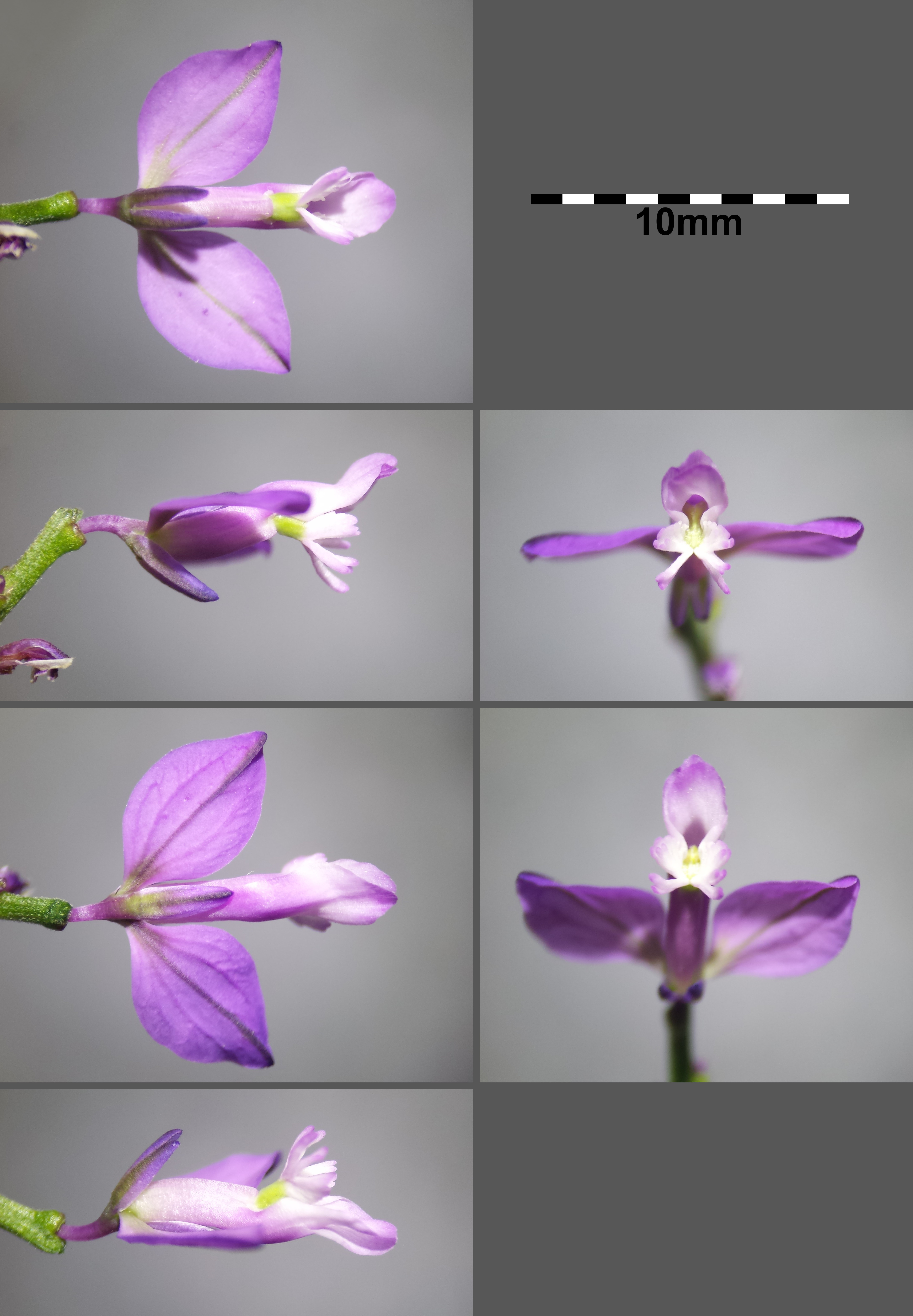 Flower Taxonym: Polygala comosa ss Fischer et al. EfÖLS 2008 ISBN 978-3-85474-187-9 Location: Grillenberg near Niederhollabrunn, district Korneuburg, Lower Austria - ca. 350 m a.s.l. Habitat: semi-dry grassland